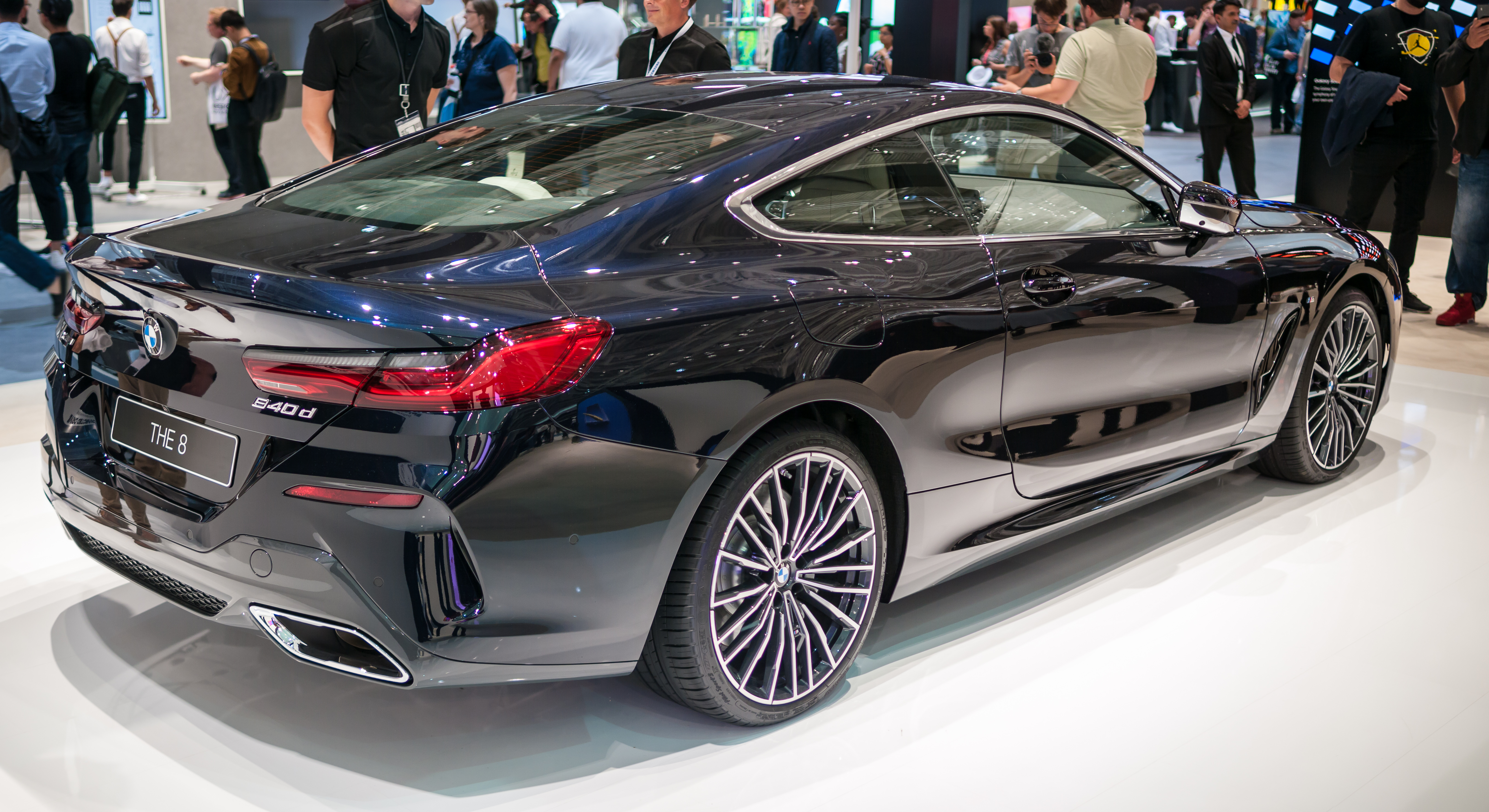 BMW 840d at Samsung stand, IFA 2018, Berlin